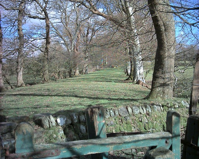 Y Lôn Goed In this view of y Lôn Goed near its beginning at Afonwen the original construction can be seen: 30 foot width, trees on either side, drainage ditches beside the trees.